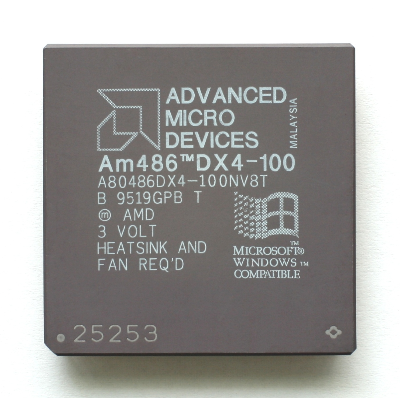 CPU AMD Am486DX4-100NV8T.